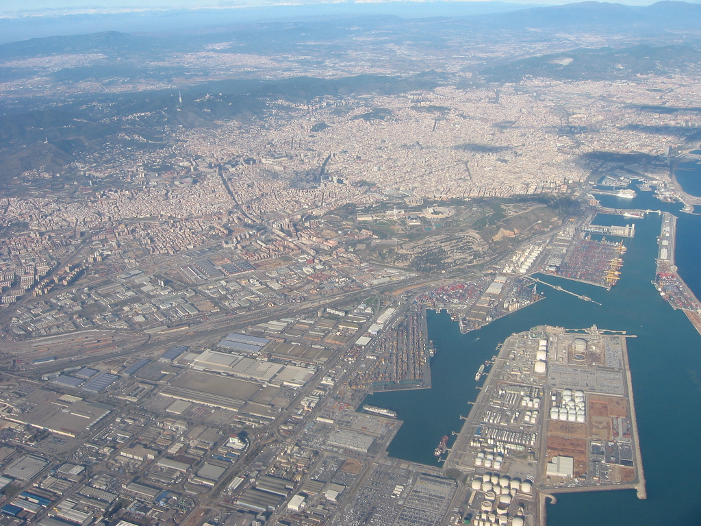 Barcelona aerial view, 2004.